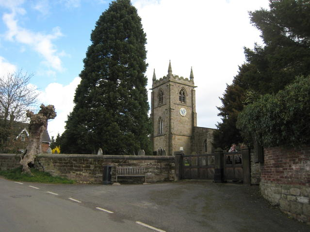 St Michael's, Shirley The present building dates from the 14th Century and as with many churches it shows the signs of alterations from Victorian times. Notice the old hollow tree growing out of the wall to the left.